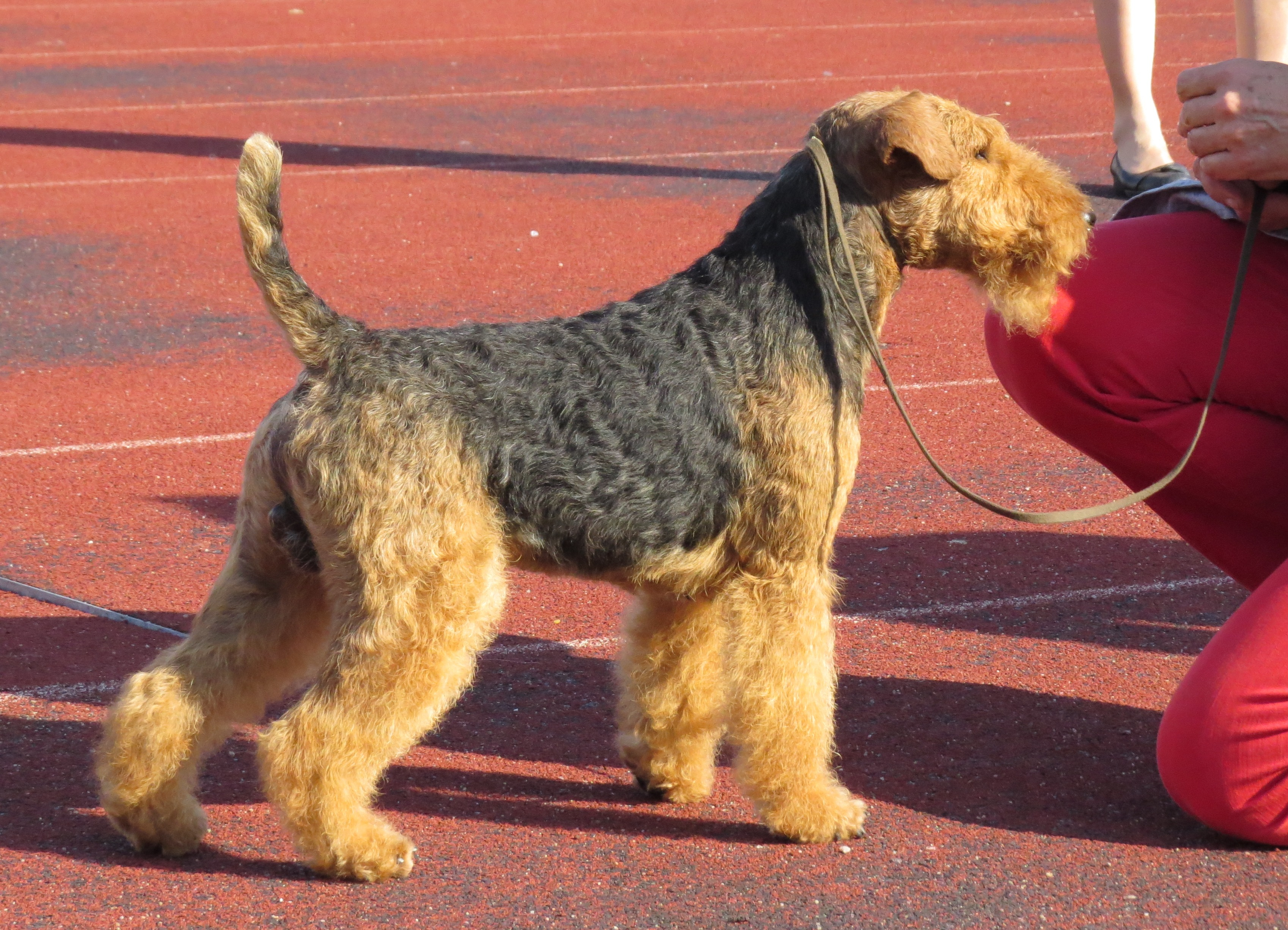 Tallinn, Estonia, duo CACIB 2013, August 17-18